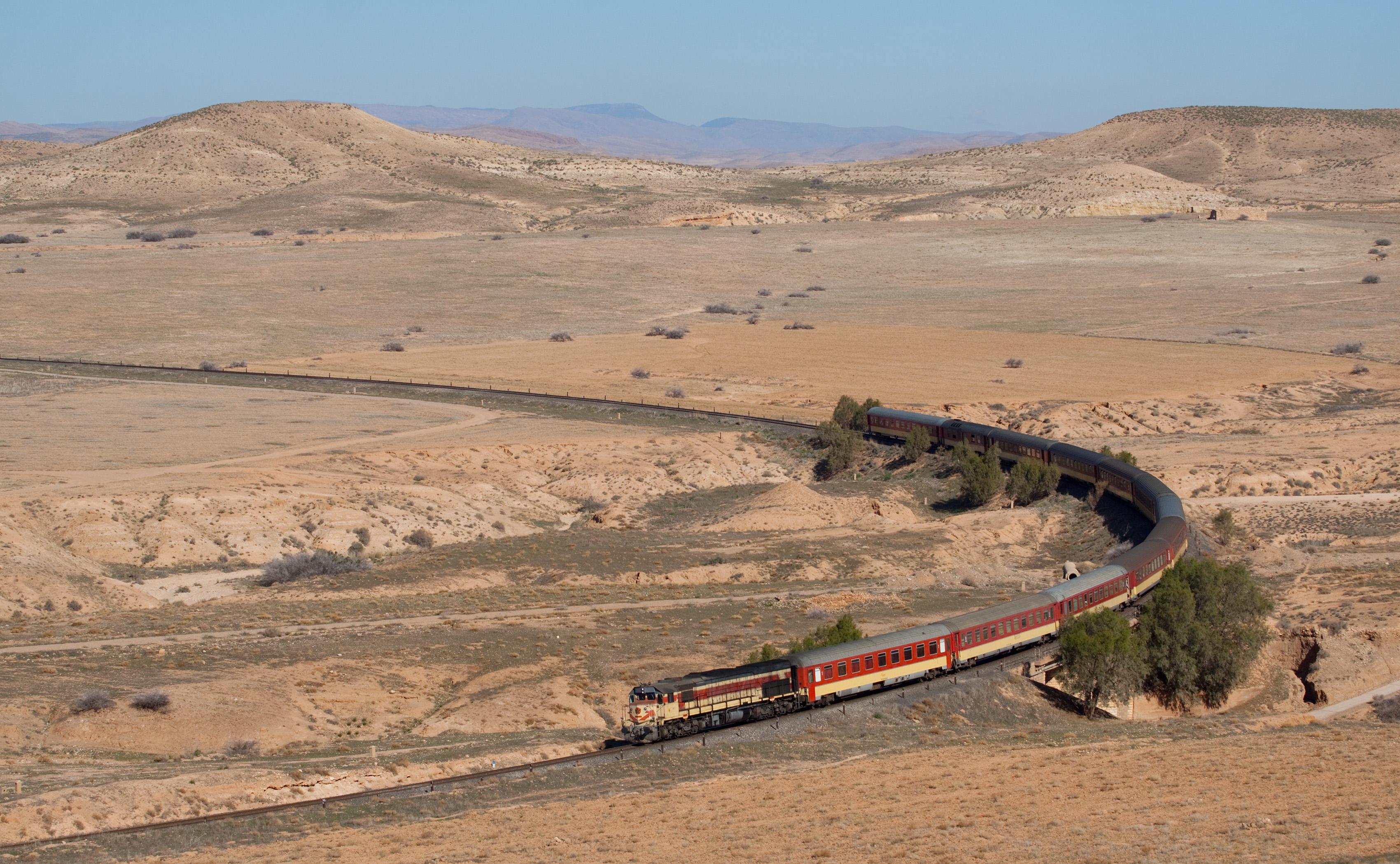 ONCF class DH 370 (EMD GT26CW-2) with a passenger train from Oujda, near Oued-Metlili, Morocco.